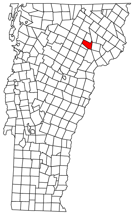 Map of Vermont towns with Wheelock highlighted